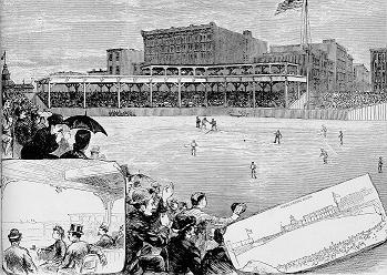 Scaled-down version of an 1883 Harper's Weekly illustration of Lakeshore Park in Chicago, taken from a book that had reprinted it.